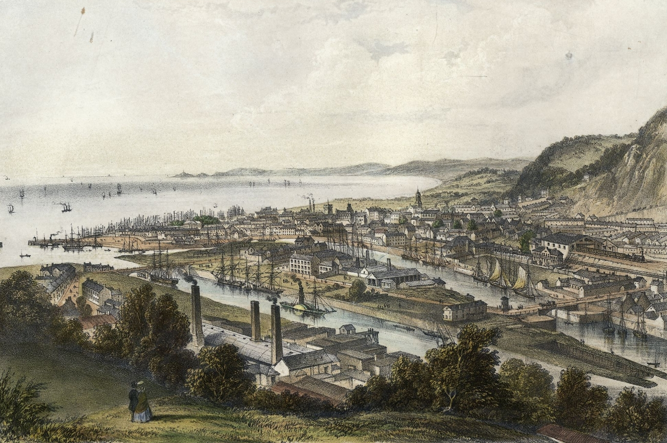 A view of Swansea Docks and numerous ships. The railway bridge can also be seen.